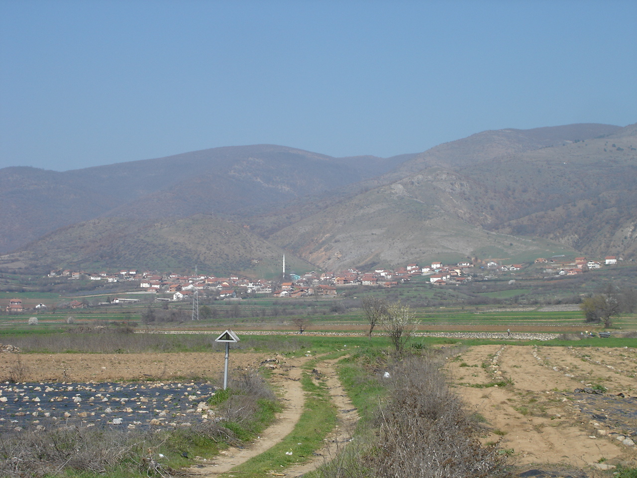 village of Strachinci, near Skopje, Macedonia